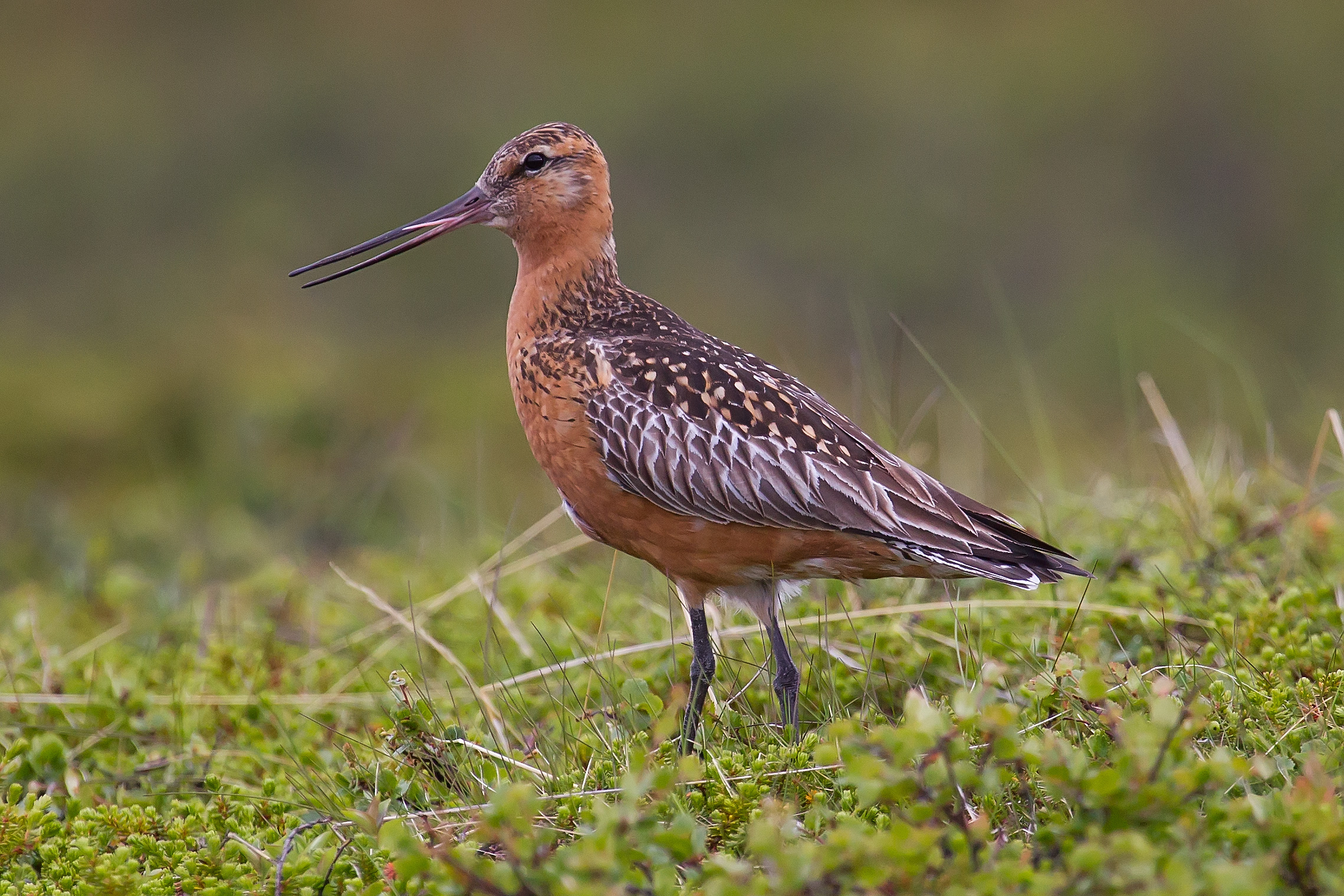 Bar-tailed Godwit in breeding plumage